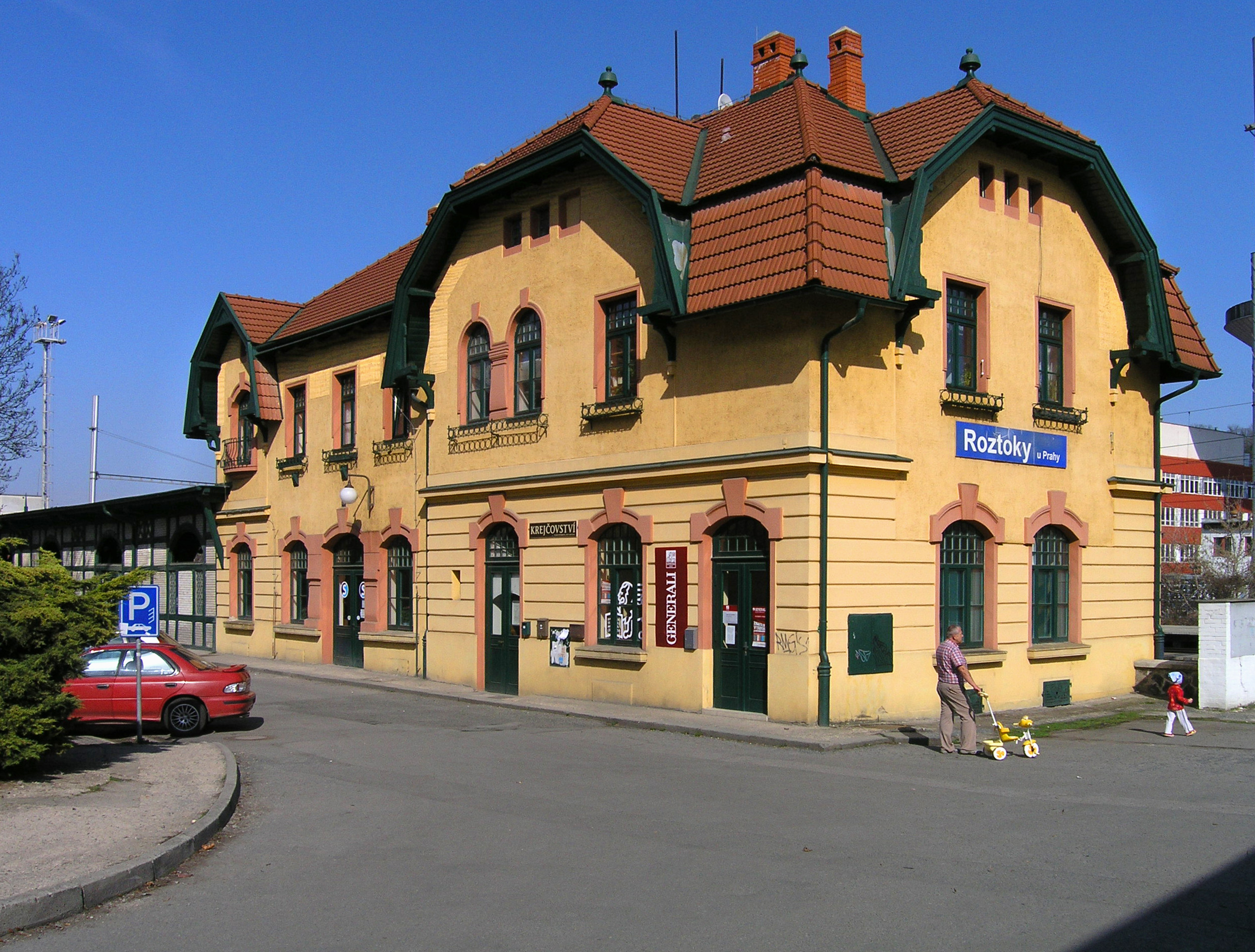 Railway station, Roztoky, Czech Republic